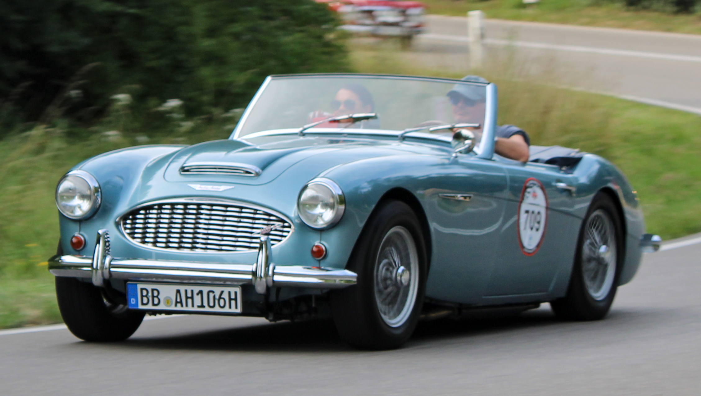 Austin-Healey 100-6 BN4 (1957) at Solitude Revival 2019